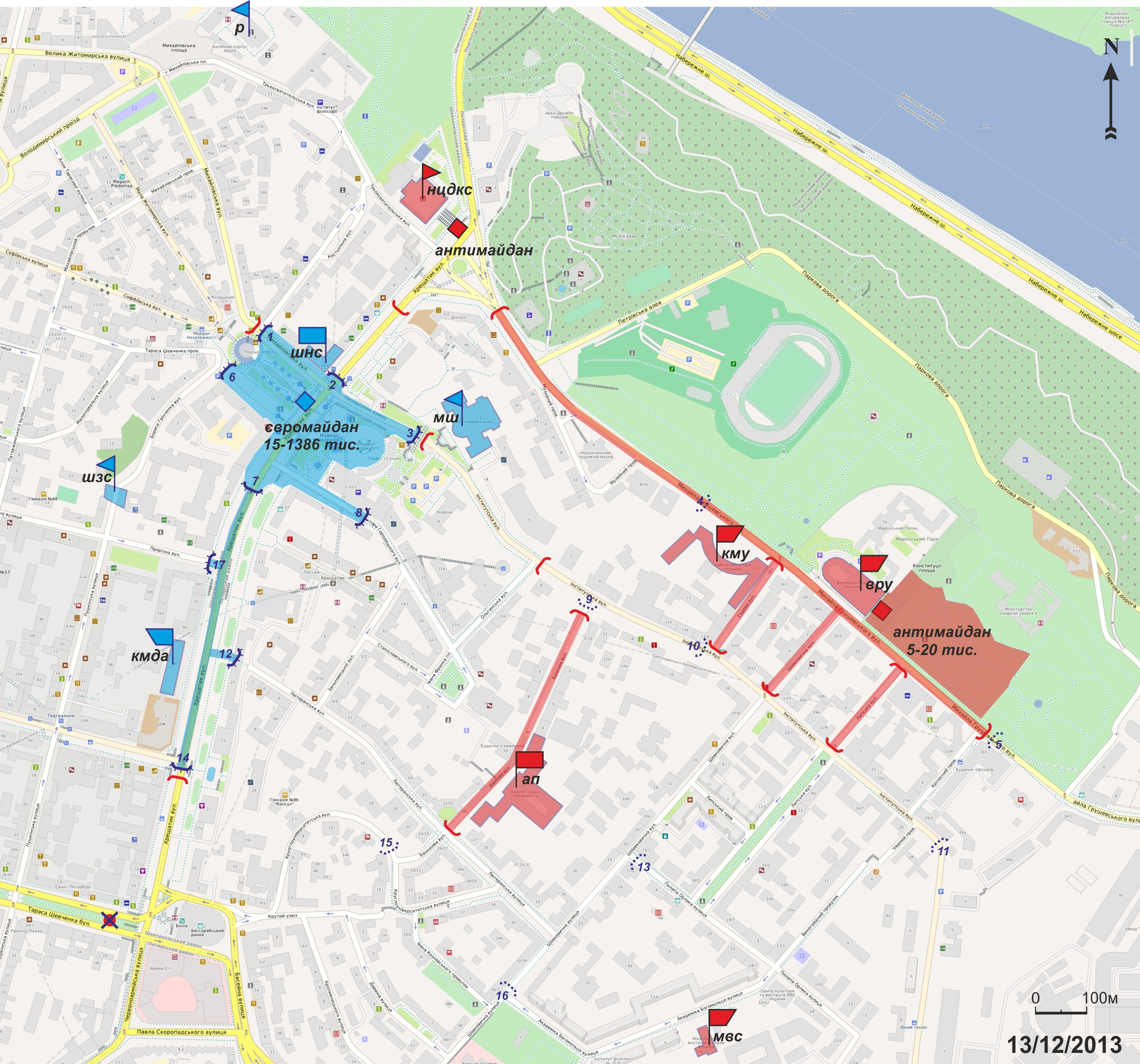 diagram of the operational situation in the center of Kiev in the evening of 13 December